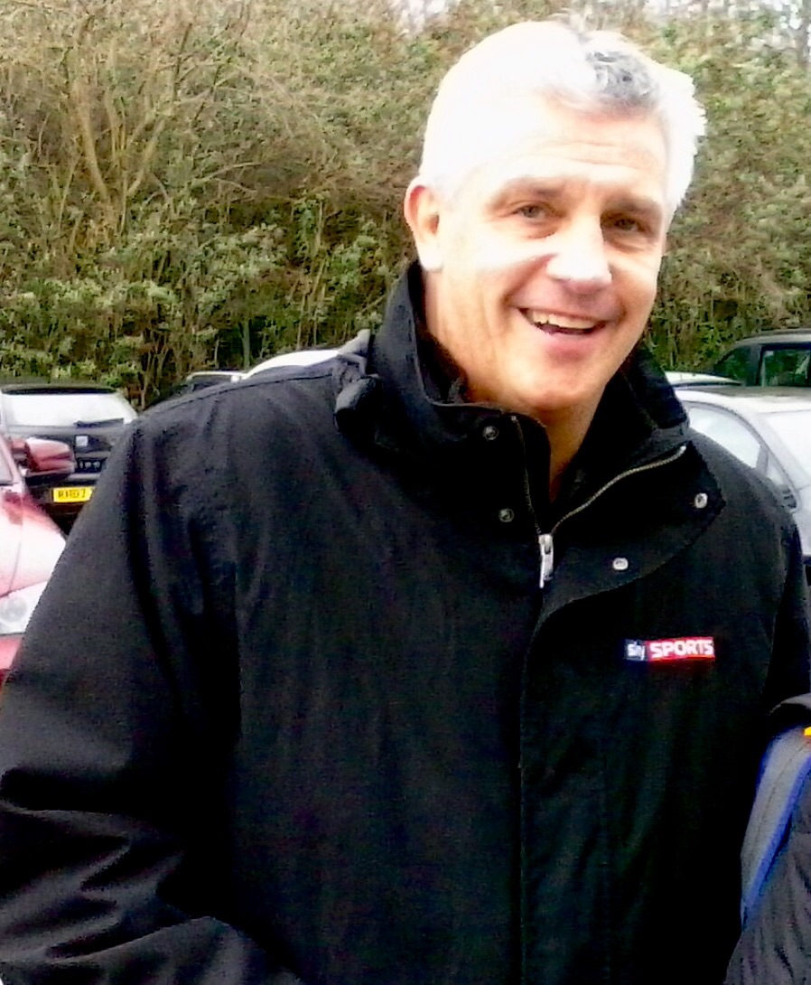 Former West Ham United player, Tony Gale outside the King Power Stadium, Leicester before Leicester City's home game v West Ham United.